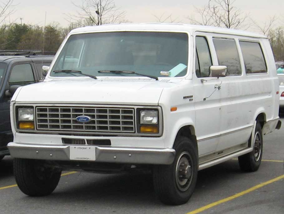 1979-1991 Ford Club Wagon photographed in Clinton, Maryland, USA.